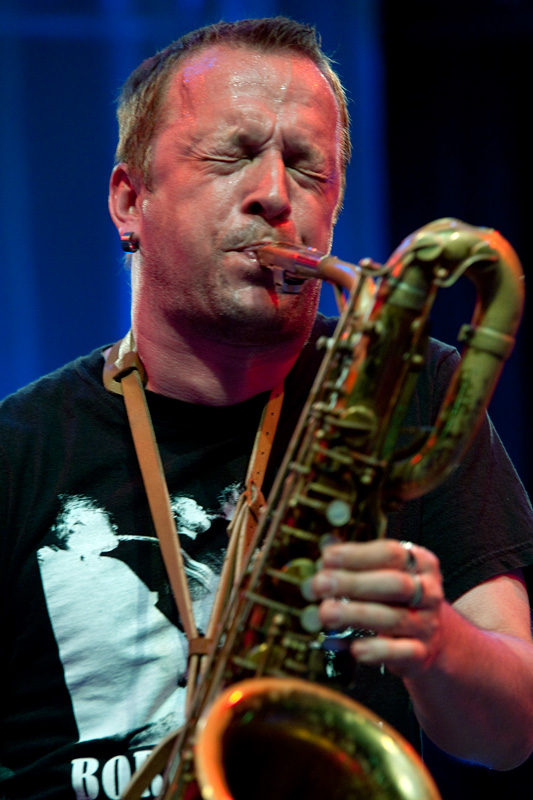 Mats Gustafsson, moers festival